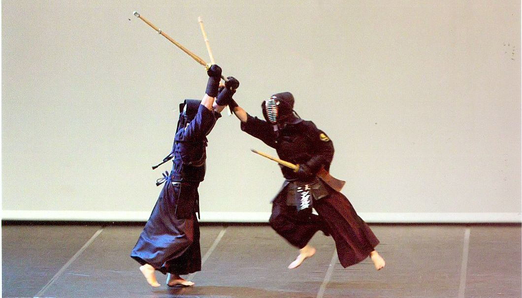 Nito ryu Kenjutsu demonstration by members of Niten Institute, Brazil. Sidharta Rezende, from Brazil and Basilio Parachin, from Argentina